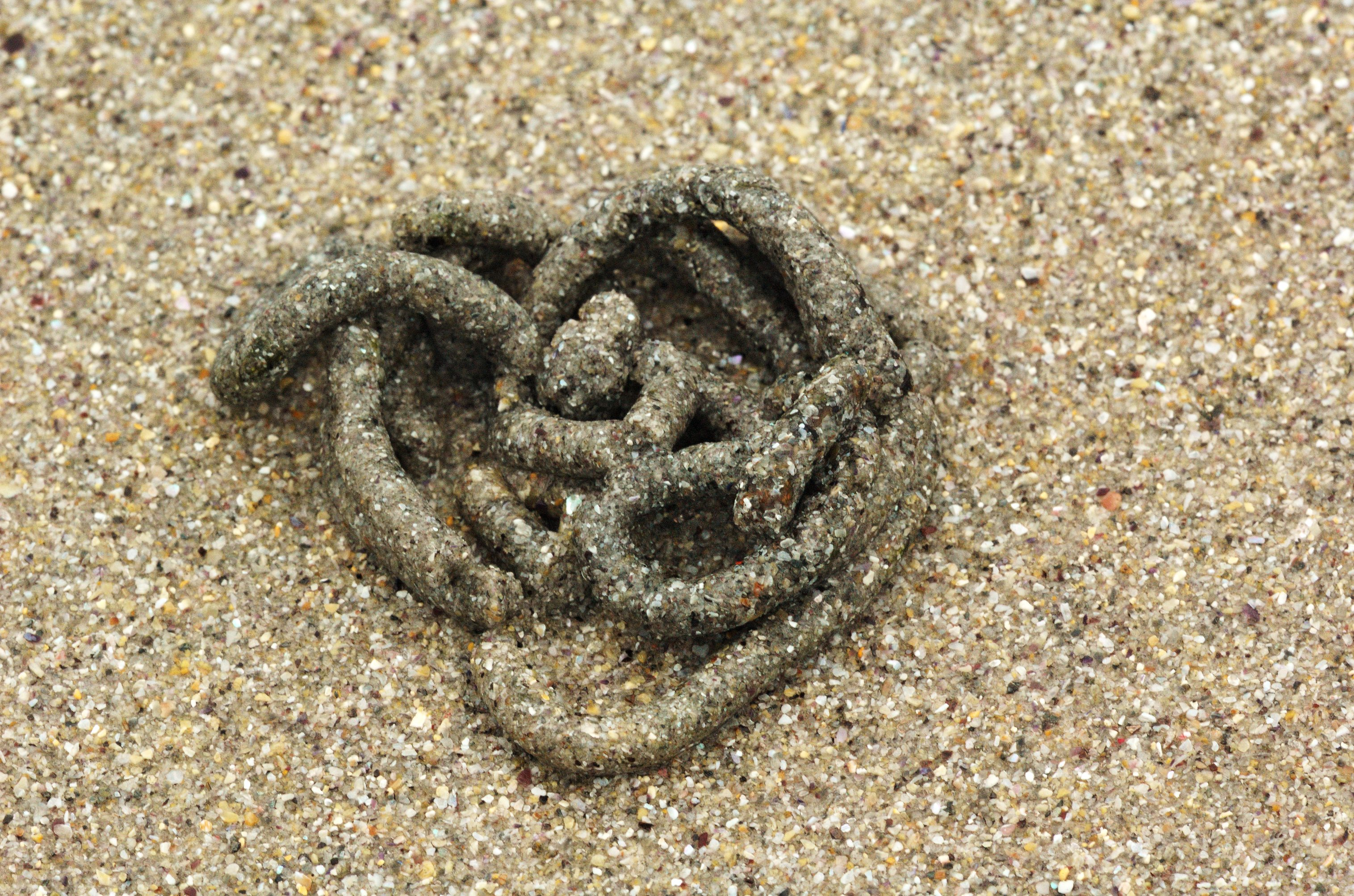 Worm cast from a Lugworm, or some other animal with similar habits, at Plage de Portez, a beach at Le Conquet, France.